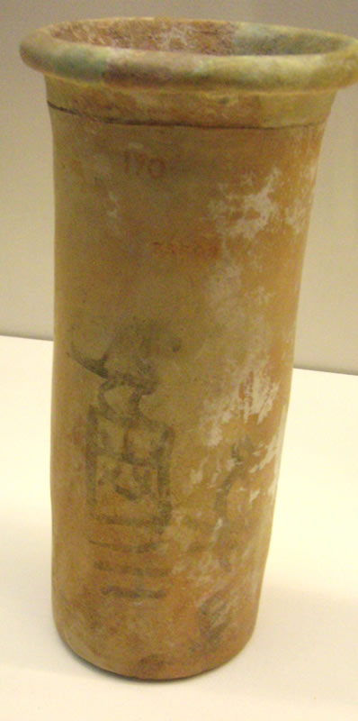 Vessel found at Abydos, naming king Ka, Dynasty 0, Ancient Egypt; British Museum